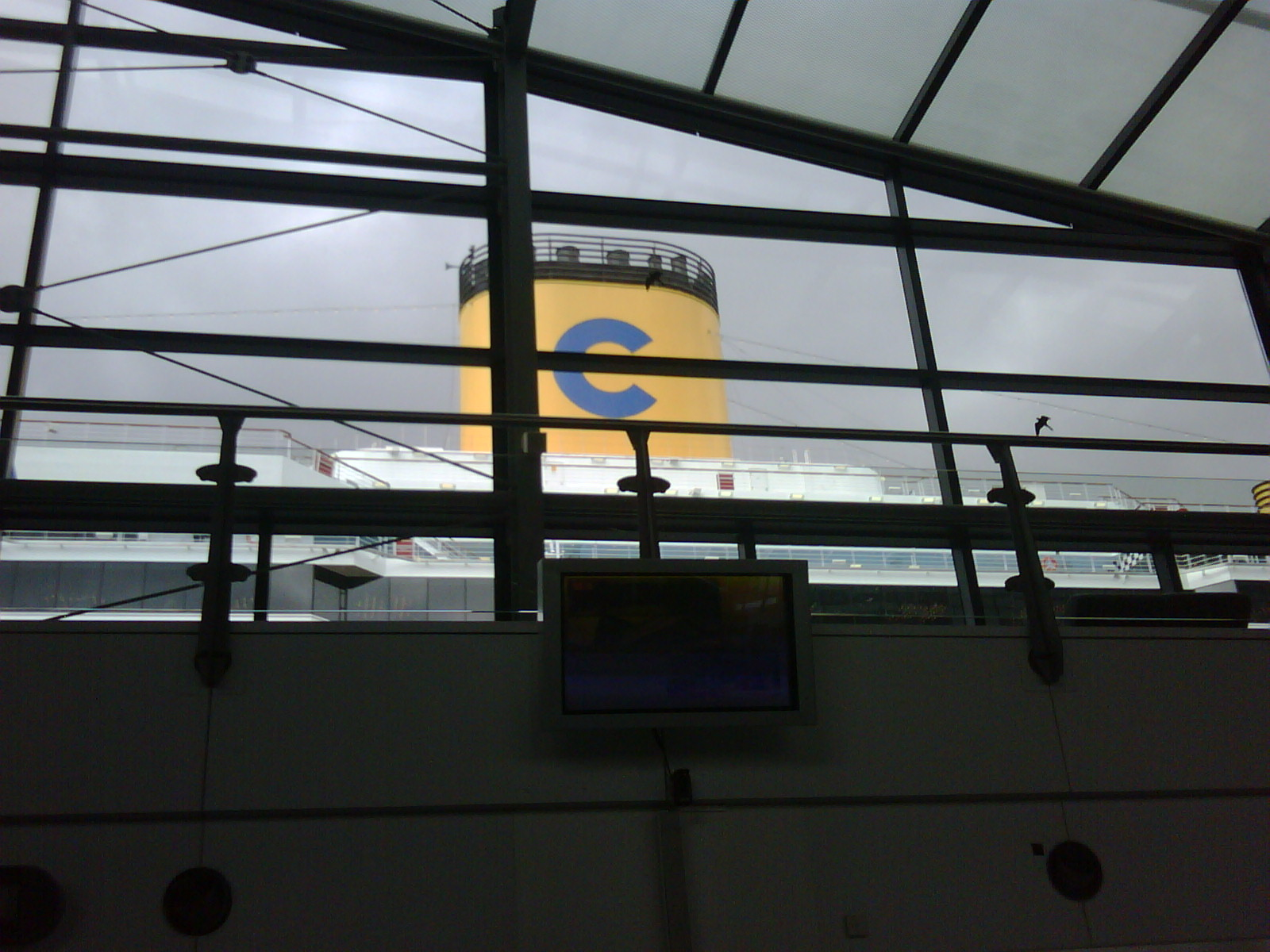 The Costa Crociere Logo on the Exhaust of the MS Costa Luminosa